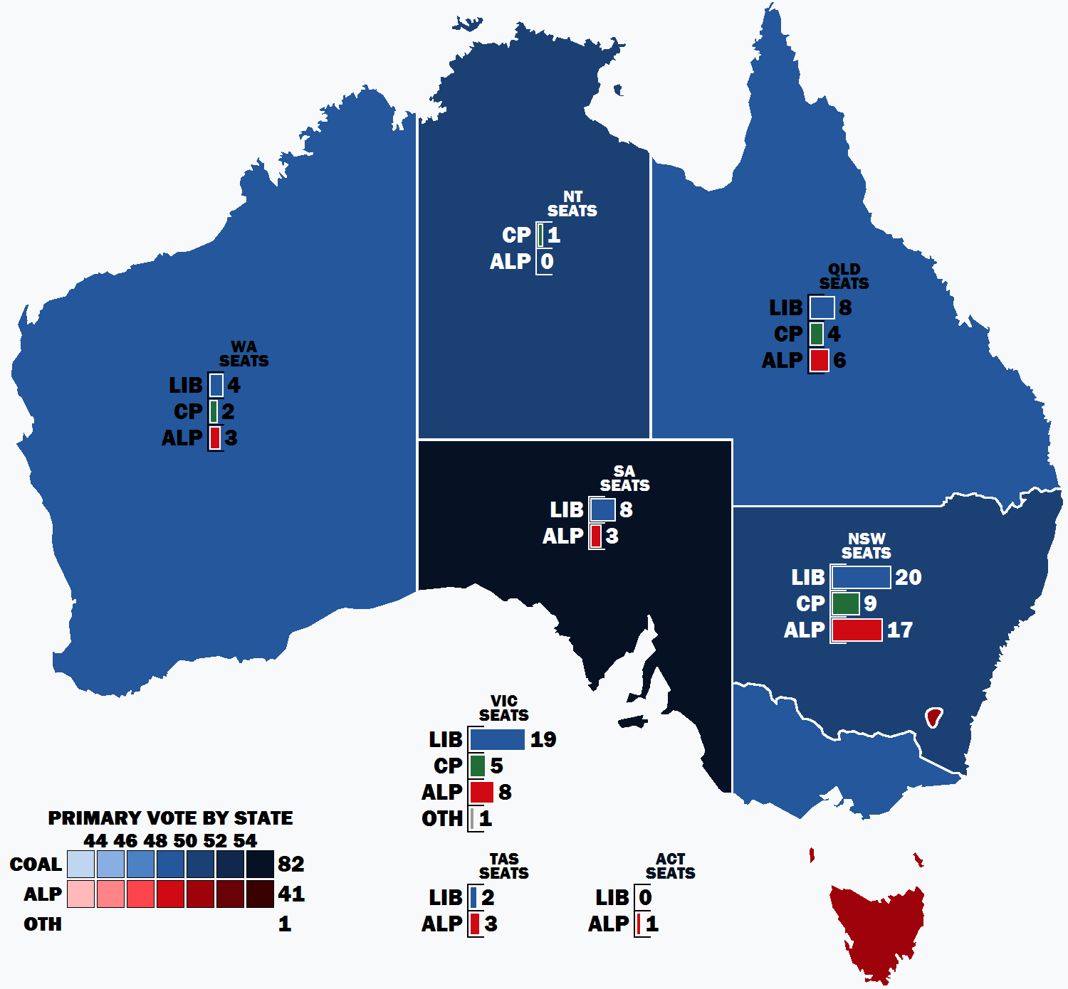 Result of the primary vote by state and territory in the 1966 Australian federal election.